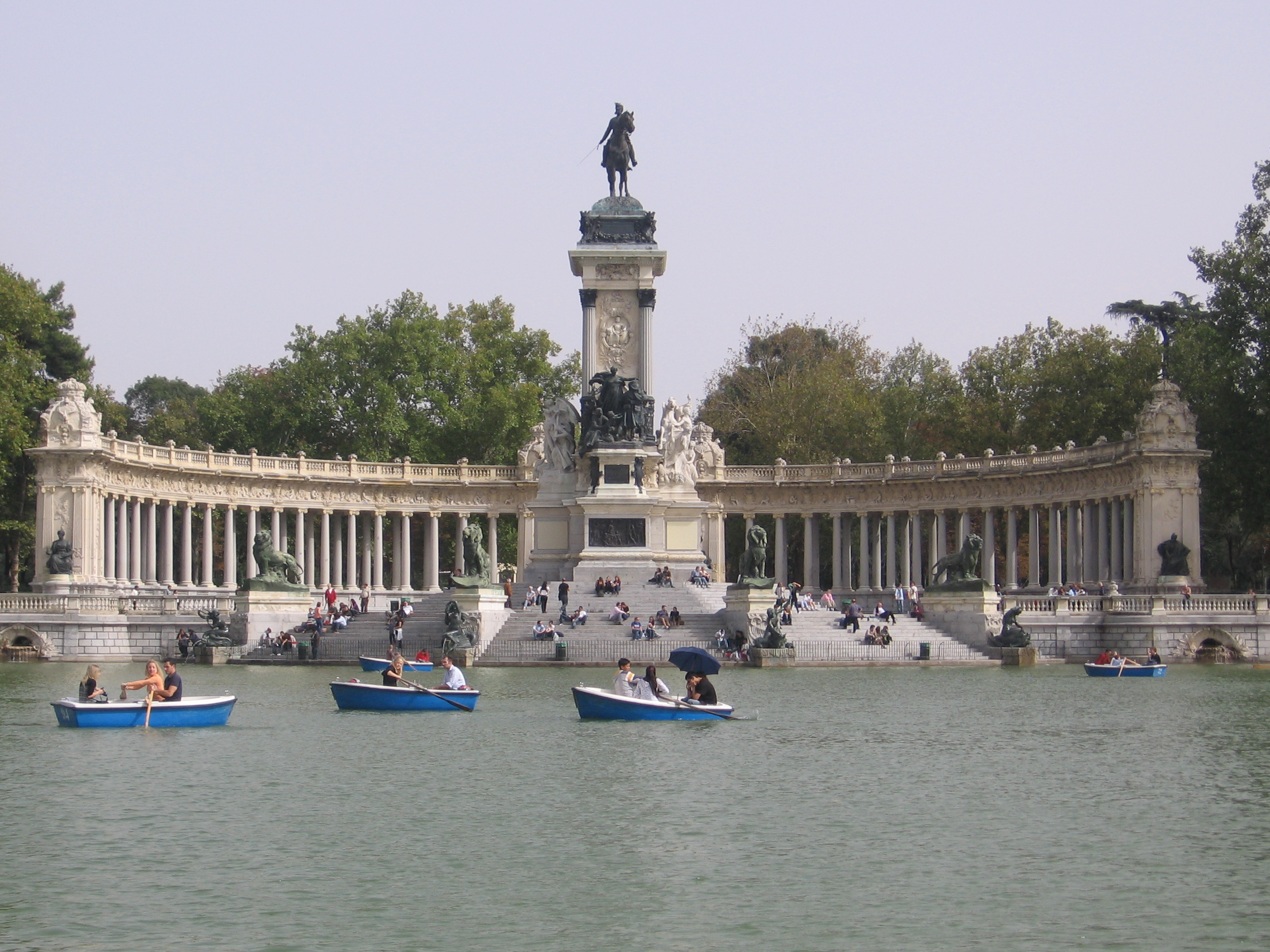 Parque del Buen Retiro, Madrid.